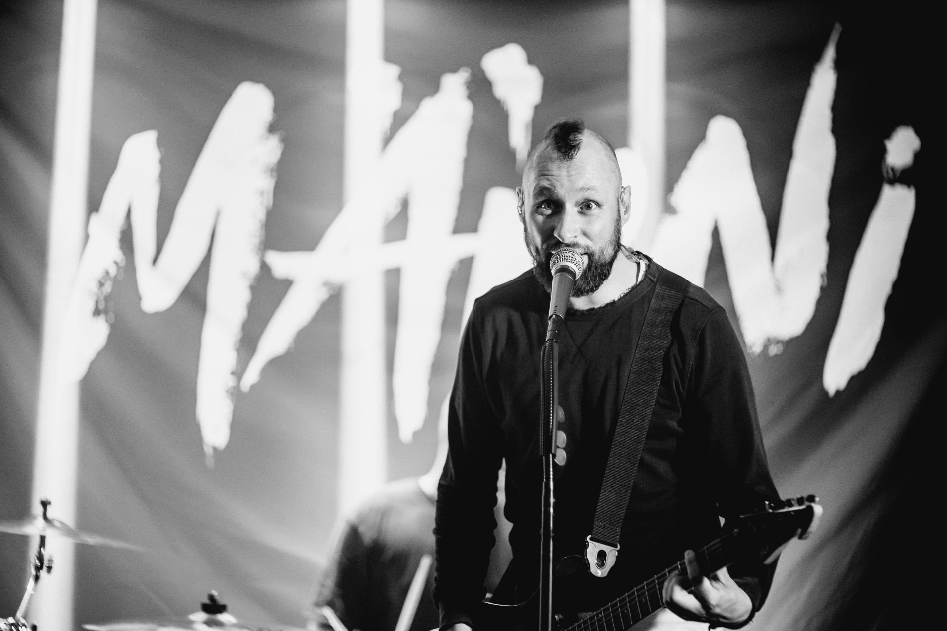 Männi 2019